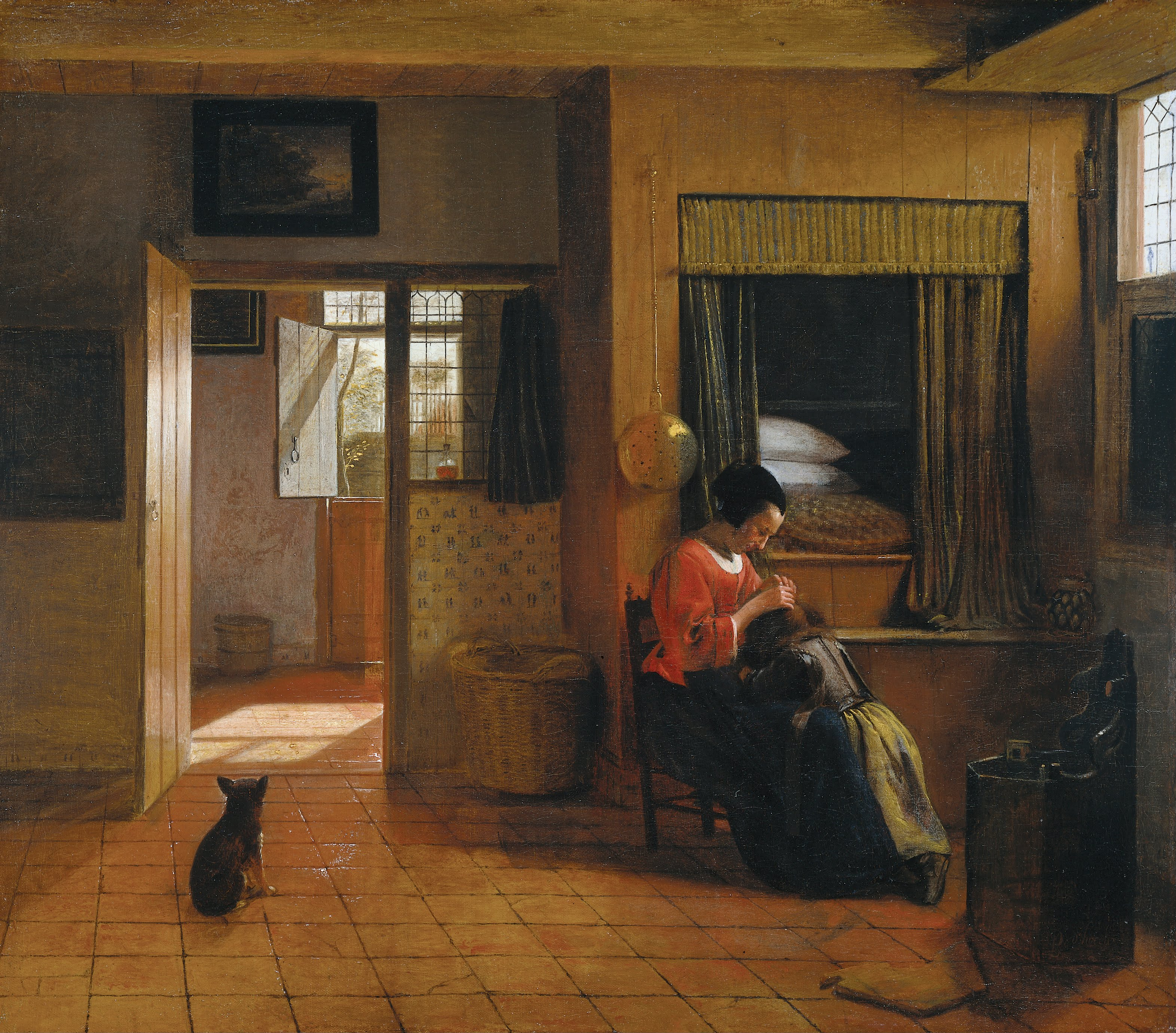 Interior with a mother delousing her child's hair, known as 'A Mother's Duty'. The mother sits to the right in front of a bedstede. Further to the right a high chair. To the left a dog sits on the tiled floor looking towards an open window in the adjacent room. Over the door hangs a small landscape painting.